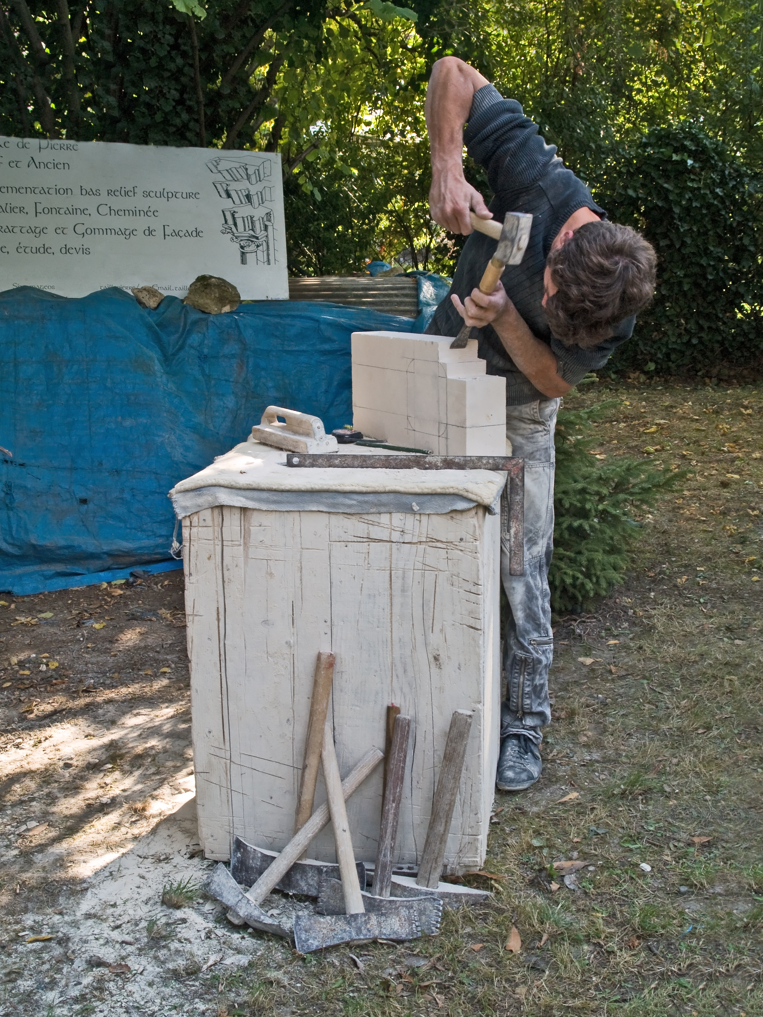 Stonemason working, with his tools. Demonstration during the European Heritage Days 2009.